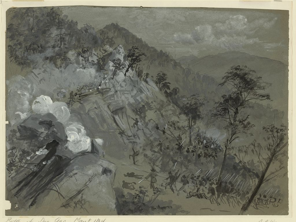 Assault on Dug Gap, part of the larger Battle of Rocky Face Ridge, May 7-13, 1864.